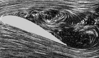 Streaklines past an airfoil in a wind tunnel. The airfoil angle of attack is high enough that flow separation occurs.